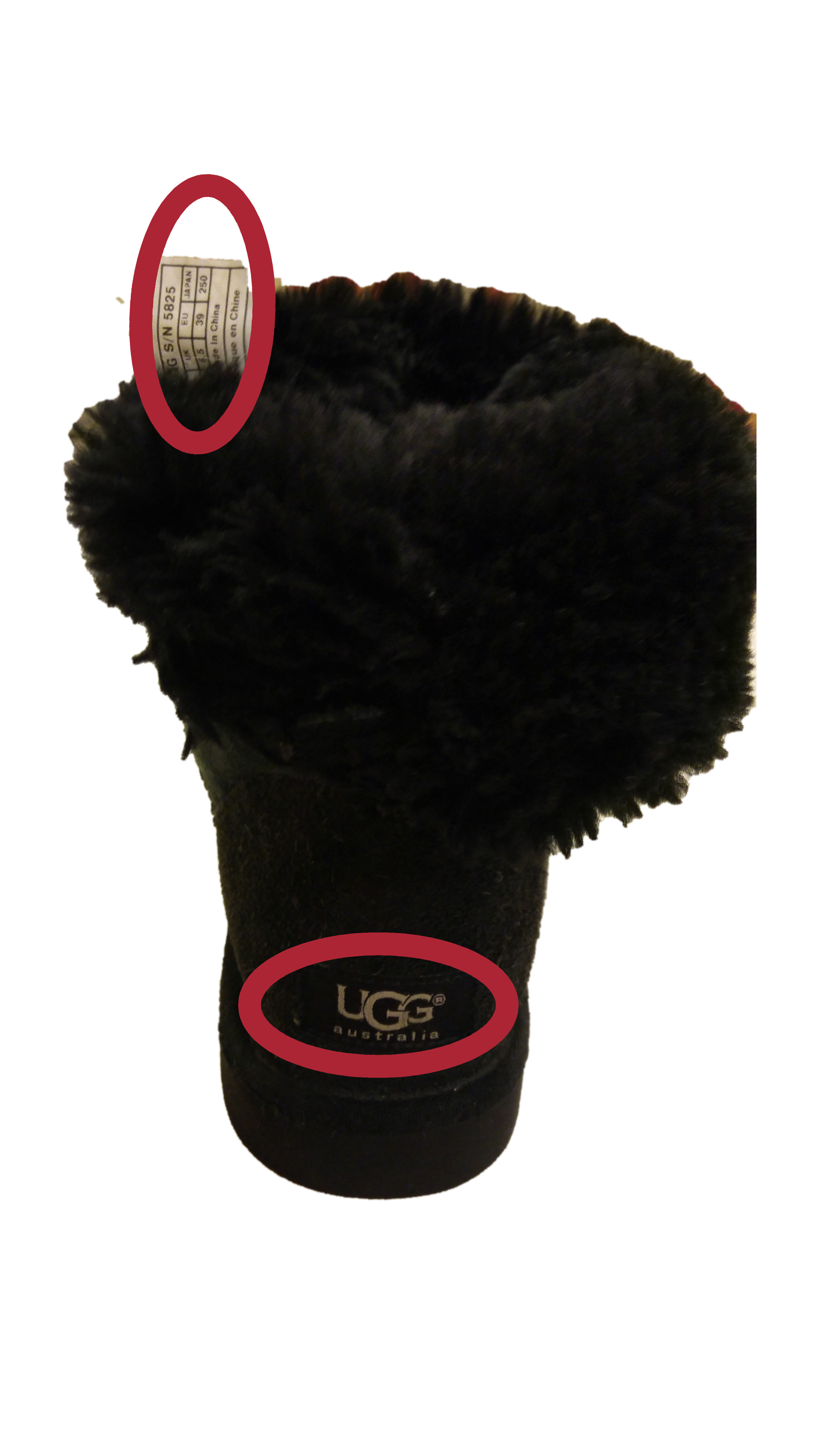 A boot by Uggs Australia, with label stating "Made in China"